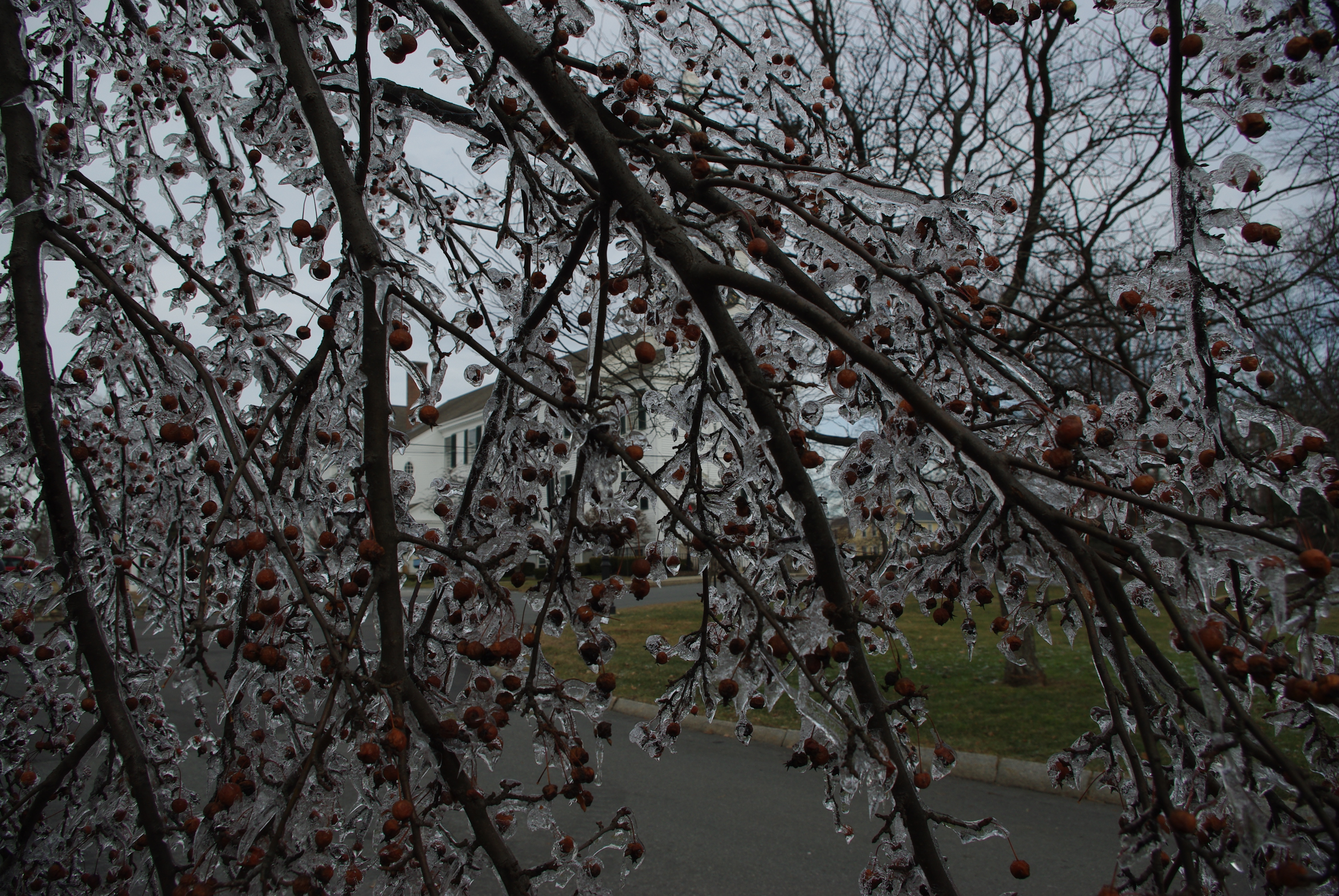 Ice leftover from the ice storm of 12/12/2008.